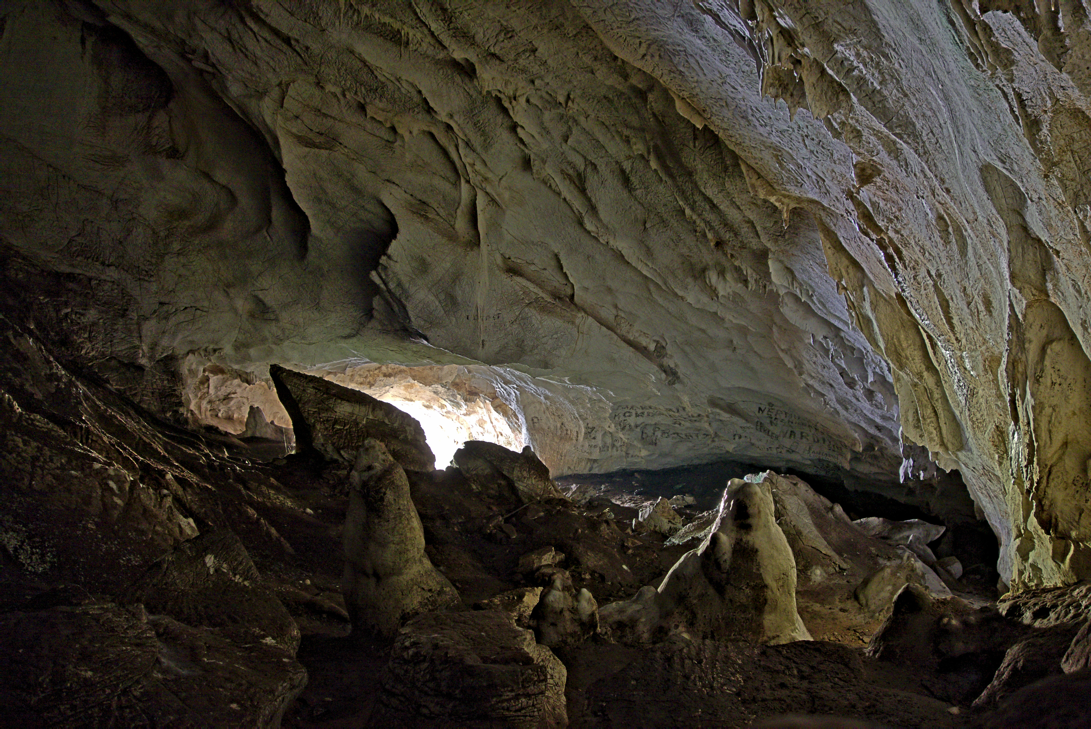 Pirogoshi cave: small sinter curtains with grafittis lit from the entrance